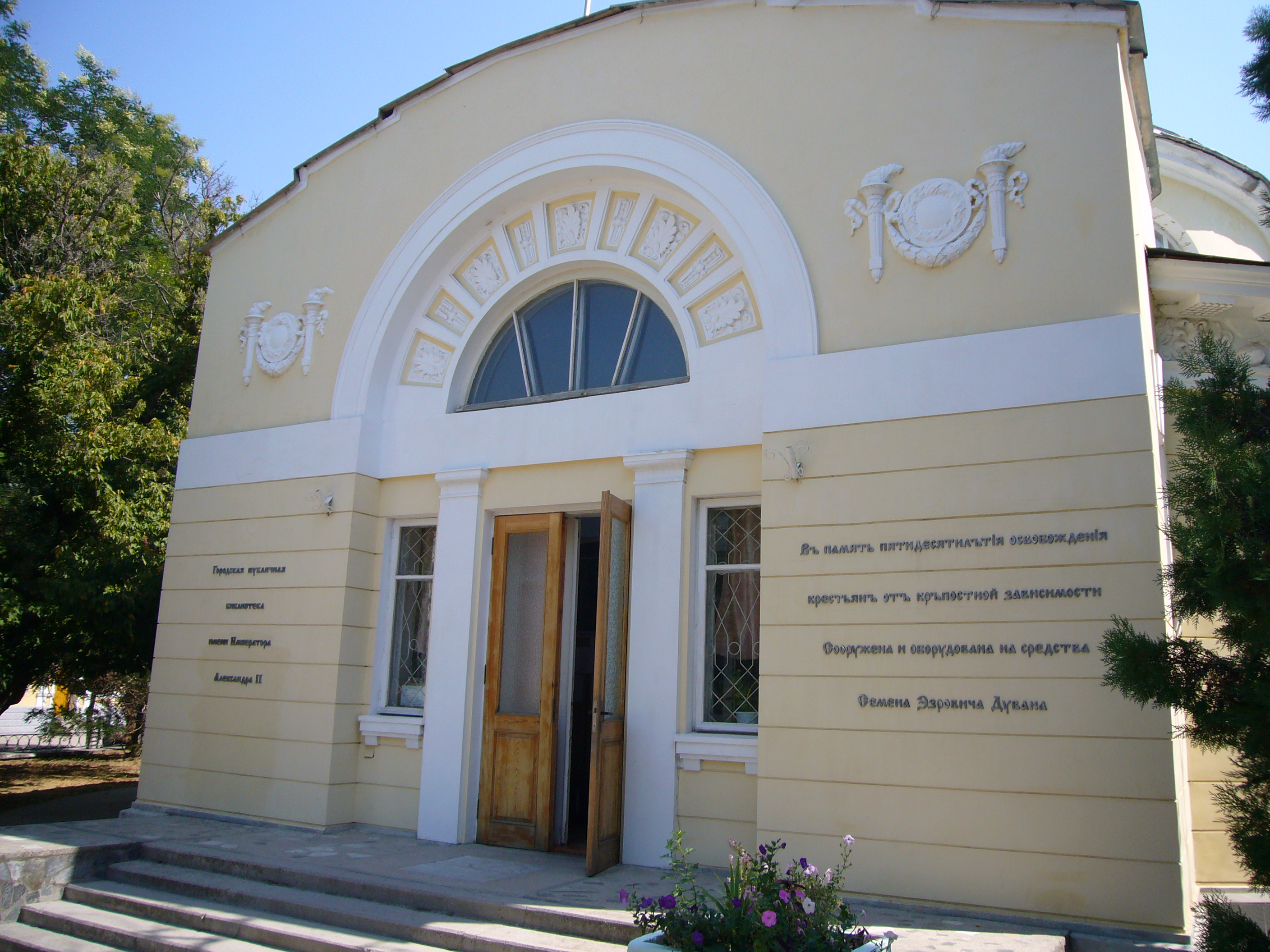 Municipal Library named after Emperor Alexander II of Russia in Eupatoria, Crimea, Ukraine.